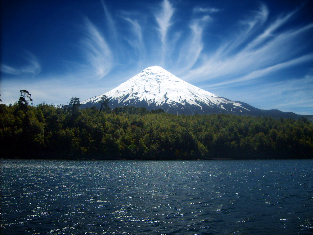 Villarrica Volcano, Chile.